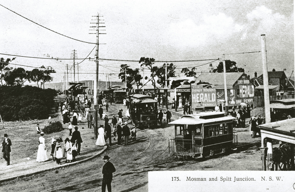 Opening ceremony for the Spit Junction tram line 1900 Dated:3/11/1900